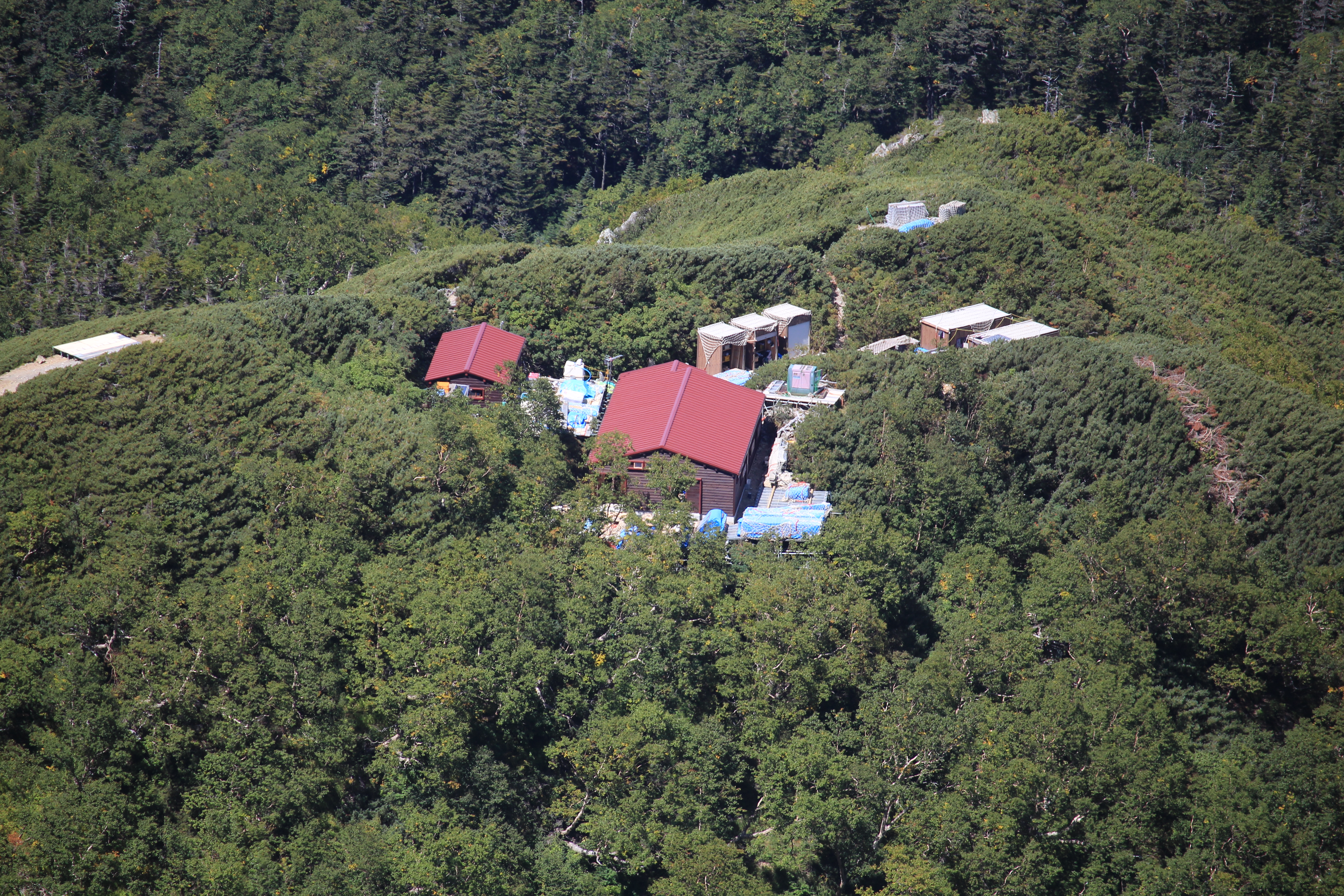 Shiomigoya seen from near peak of Mount Shiomi, in Akasishi Mountains, Japan.